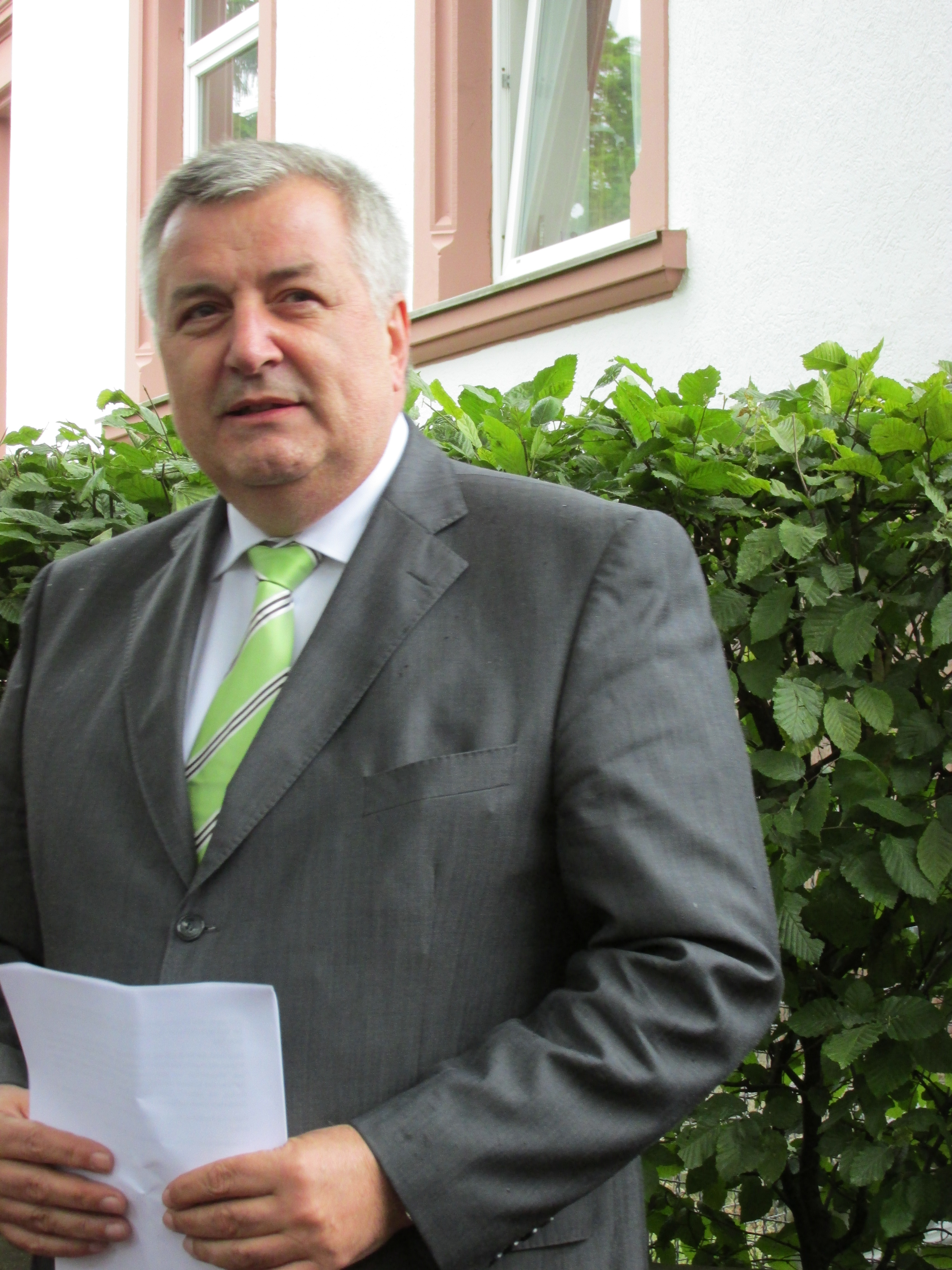 Unveiling ceremony plaque Wigner Jenő Pál: József Czukor, Göttingen, Germany check usage